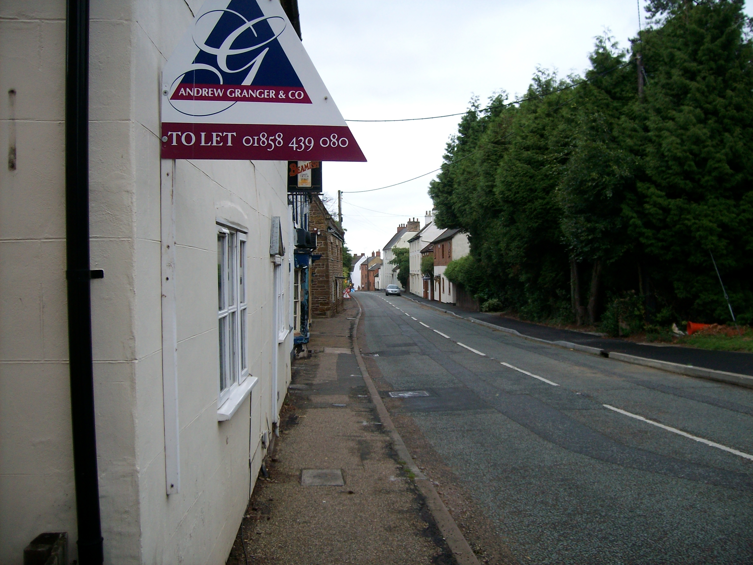 Welford High Street